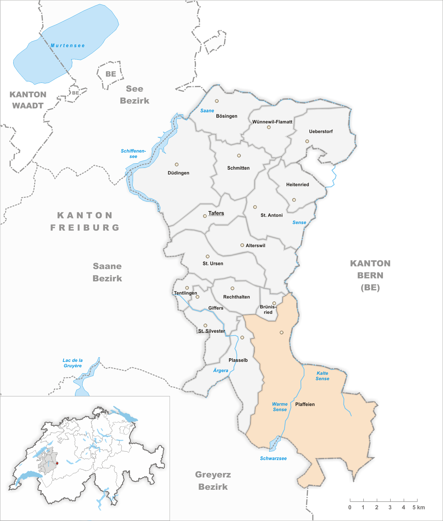 Municipality Plaffeien